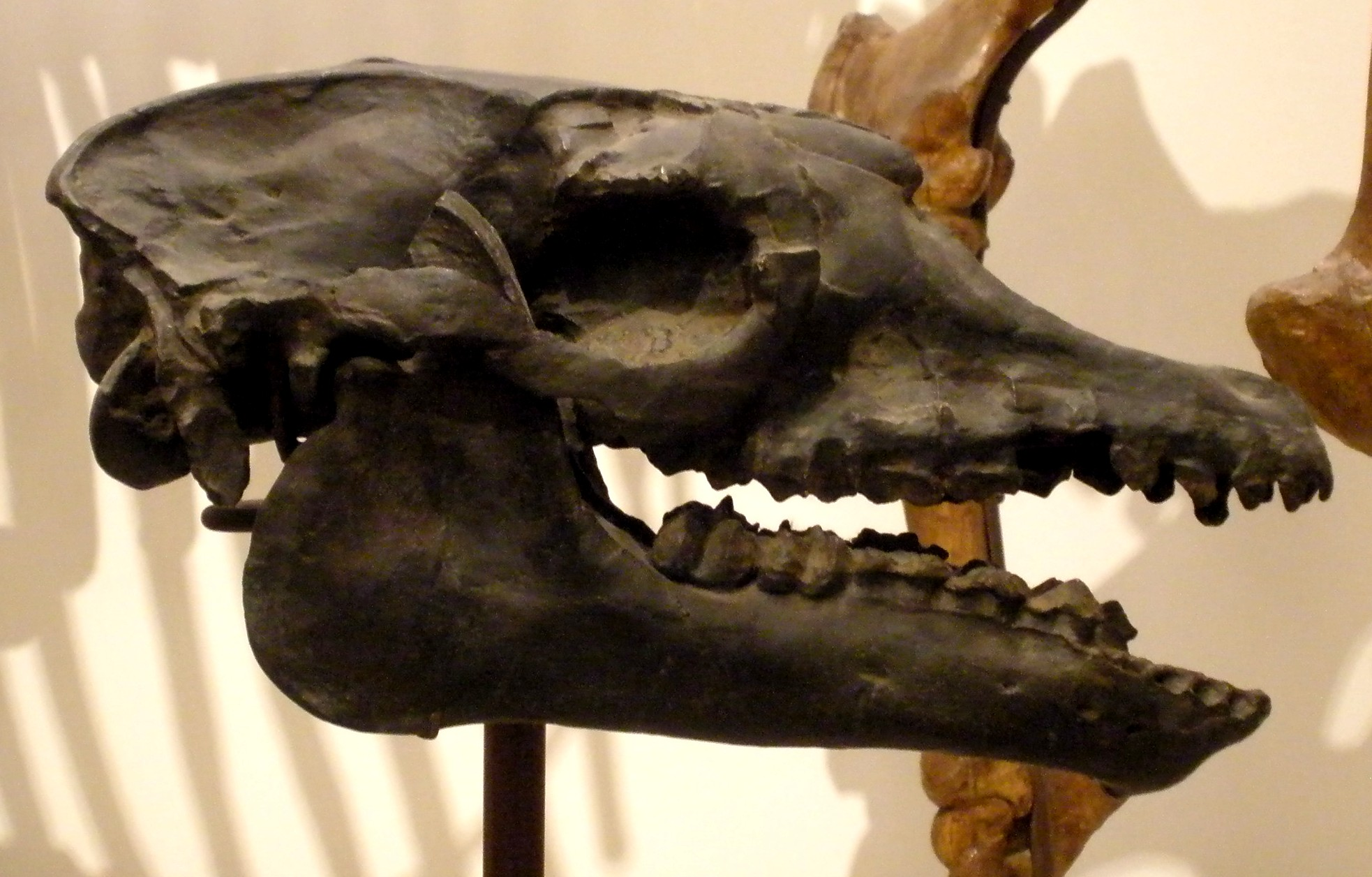 fossil of Theosodon, an extinct litoptern